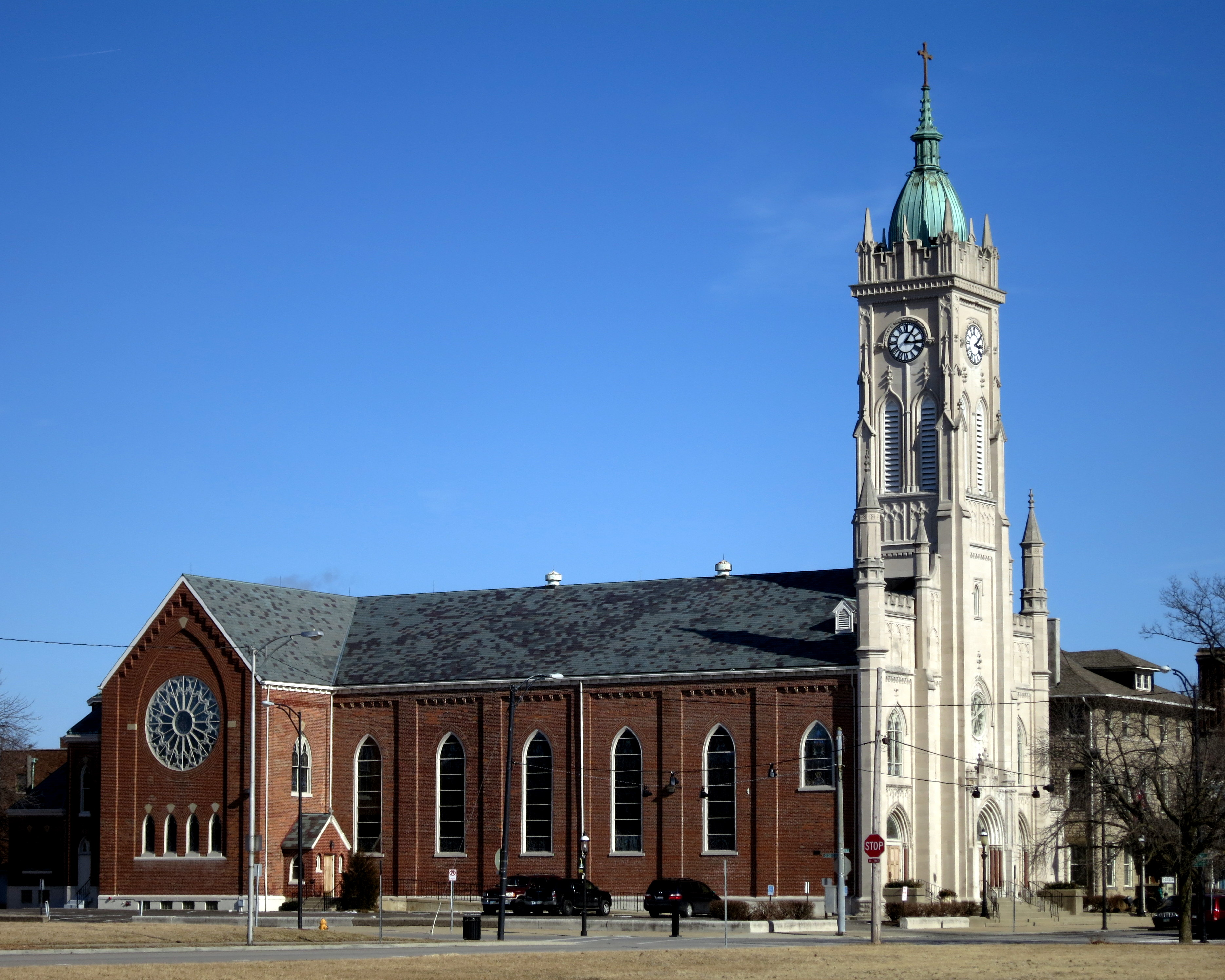 Saint Julie Billiart Catholic Church (Hamilton, Ohio) - exterior